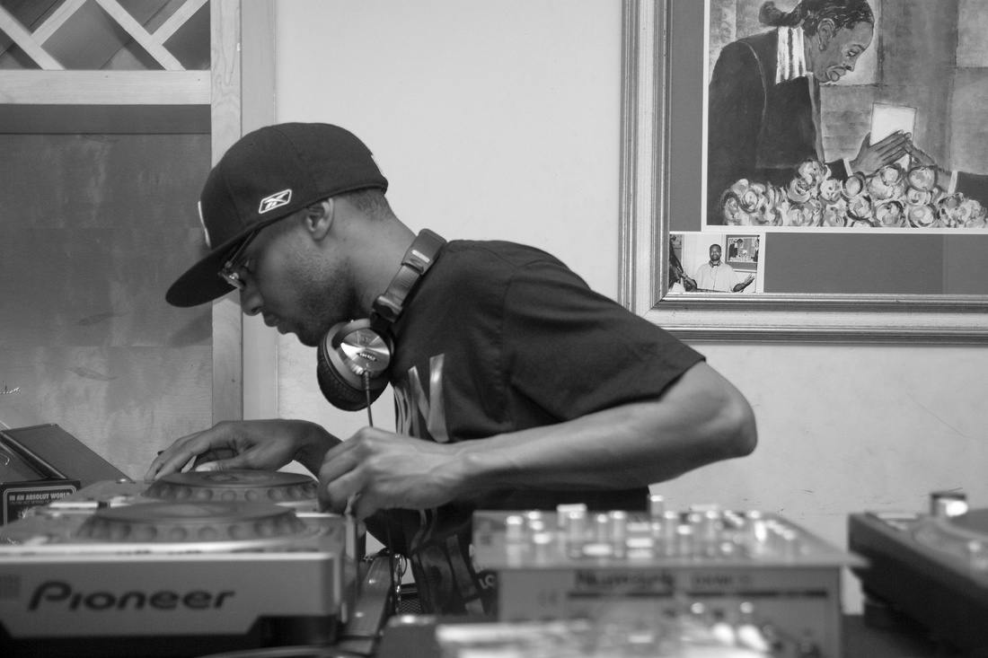 JLaine at the turntables